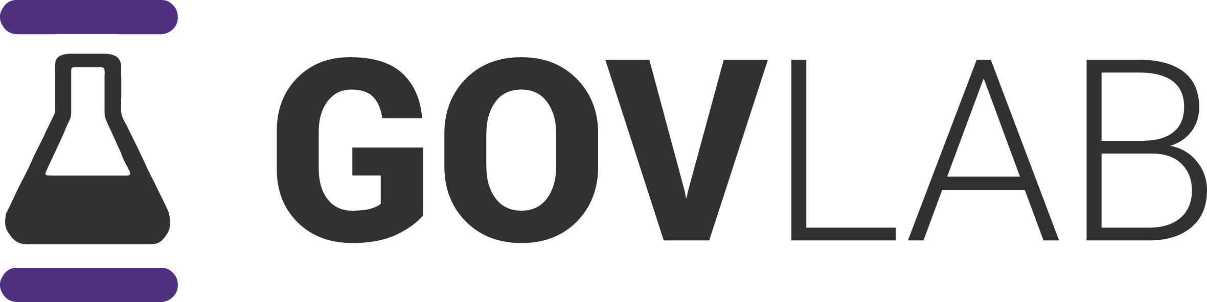 logo of The GovLab at New York University Tandon School of Engineering